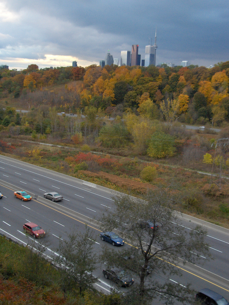 The Don Valley Parkway in Toronto. Viewed from the east end of the Prince Edward Viaduct.